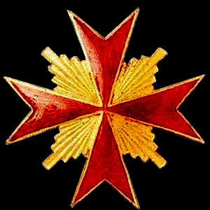 Badge of Cossack Guard Regiment